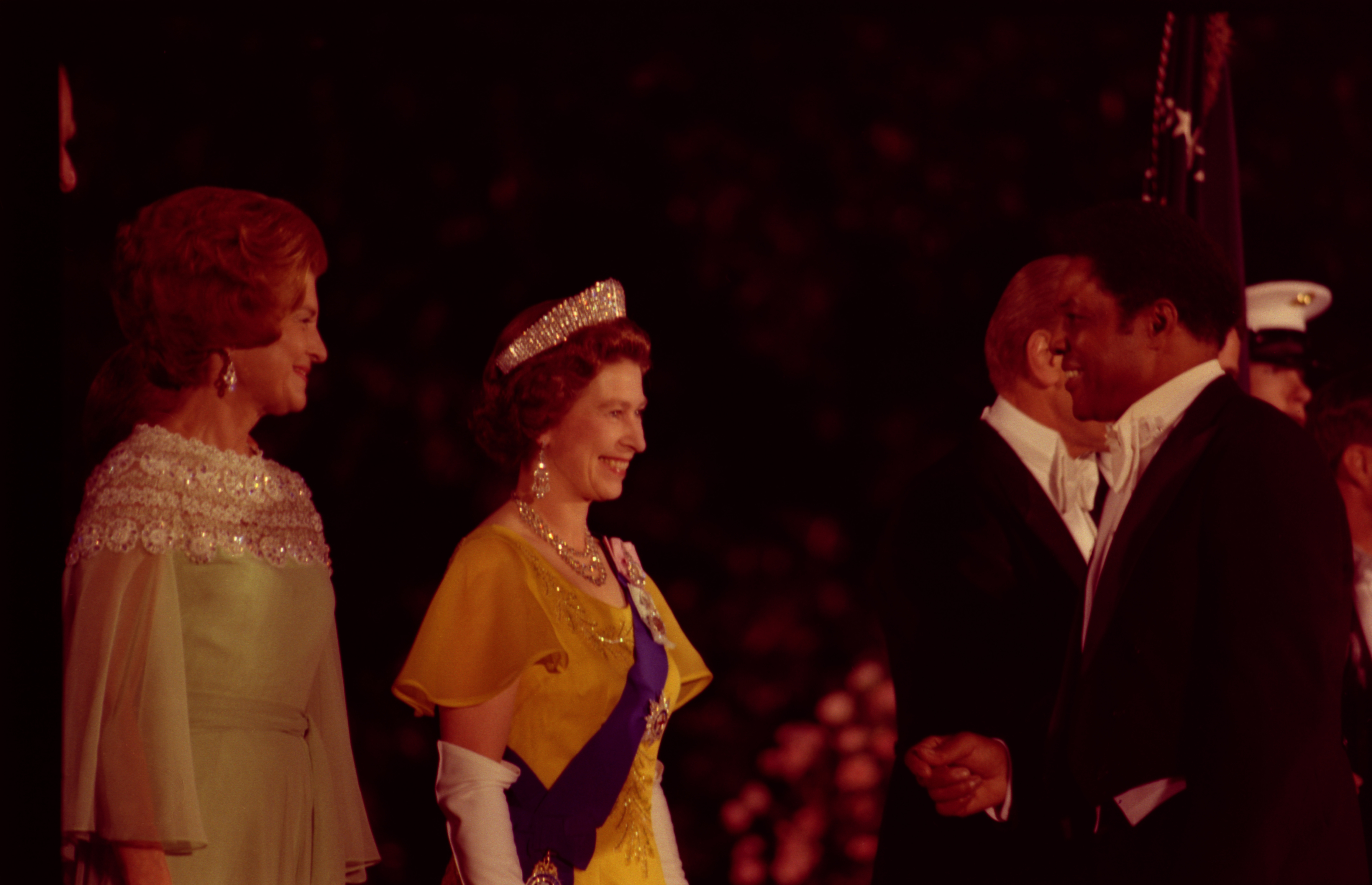 July 7, 1976 – The White House – South Lawn – Betty Ford, Queen Elizabeth II, Willie Mays– greeting, handshaking, standing, talking, smiling; white tie formal wear – Receiving Line Prior to State Dinner in Honor of Queen Elizabeth II and Prince Philip; Former Major League Baseball Player